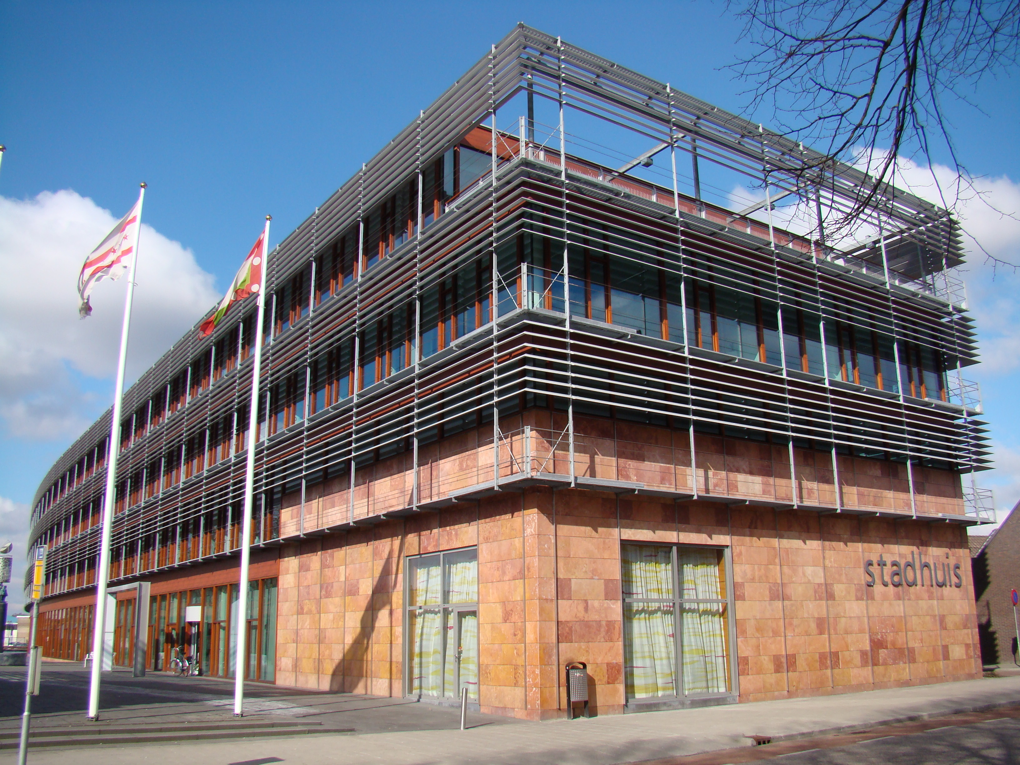 City hall of Meppel, Drenthe, the Netherlands.